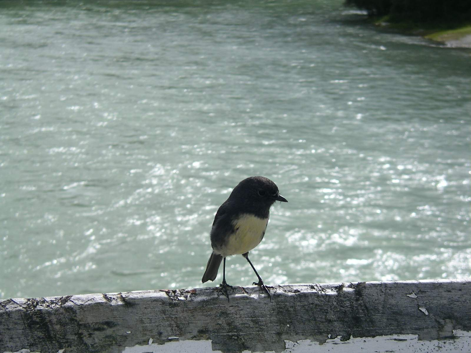 New Zealand South Island Robin (Petroica australis australis) at Lake Rotoiti, South Island, New Zealand